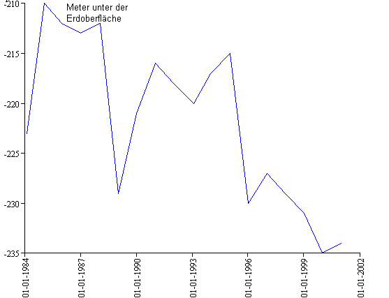 Water table of the Ogallala Aquifer near Morton, Texas, USA